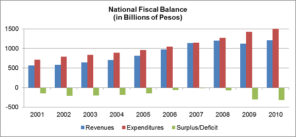 A graph showing the Fiscal Balance of the Philippines